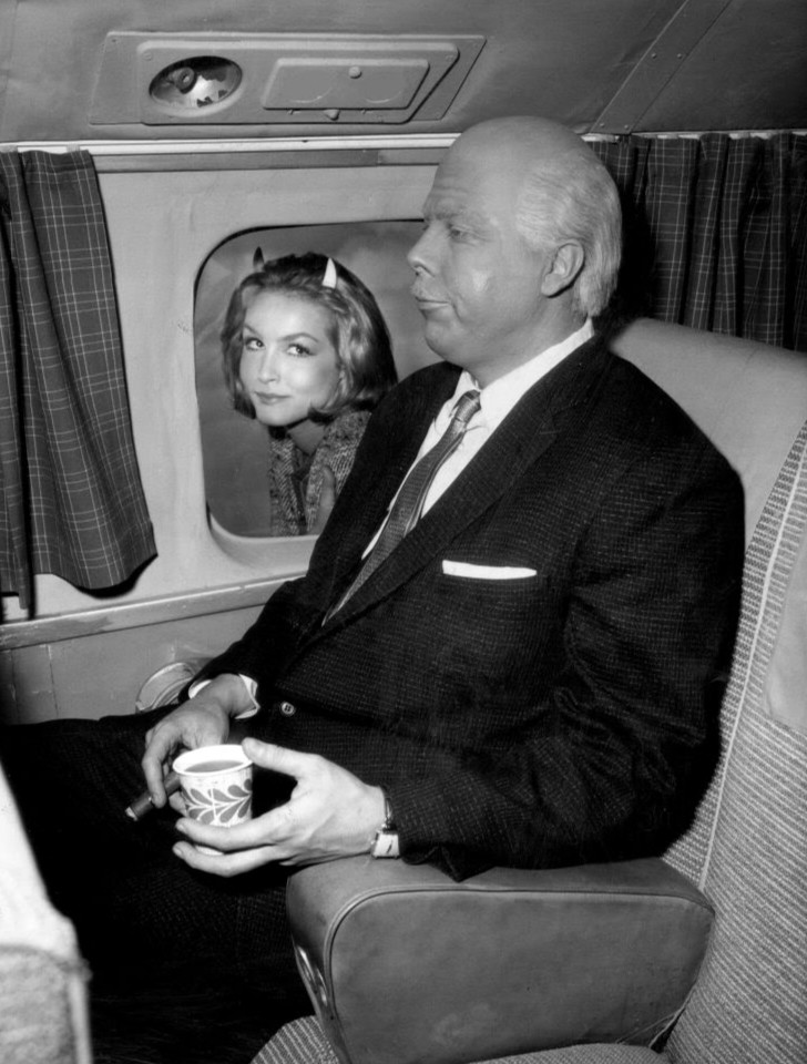 Photo of Julie Newmar (Miss Devlin AKA The Devil) and Albert Salmi as William Feathersmith from the television program The Twlight Zone. The episode is "Of Late I Think of Cliffordsville".